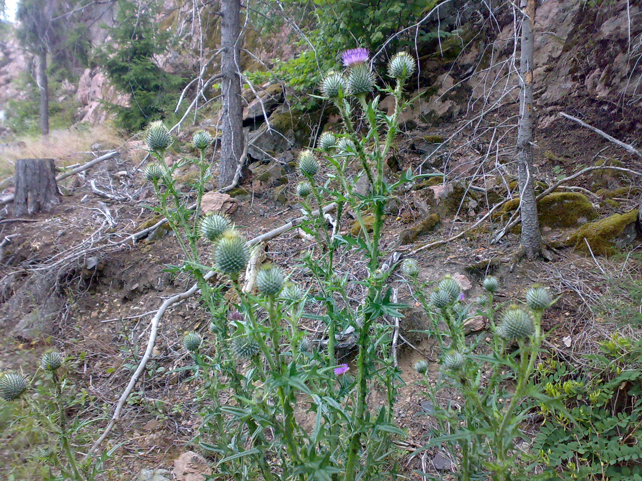 Circium vulgare hurum, Norway